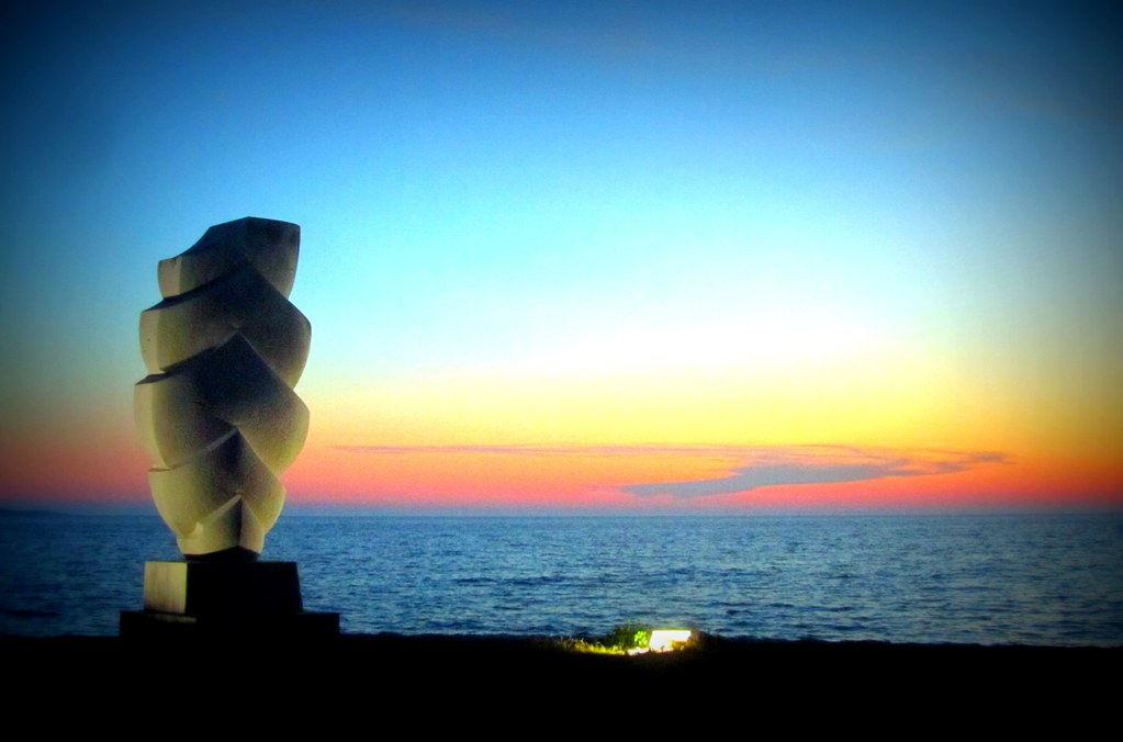 "The sails", sculpture of Šime Vulas, near harbor Žalić on Silba island